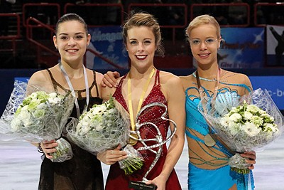 The ladies podium at the Trophée Eric Bompard 2013. From left: Adelina Sotnikova(2nd); Ashley Wagner(1st);Anna Pogorilaya(3rd).